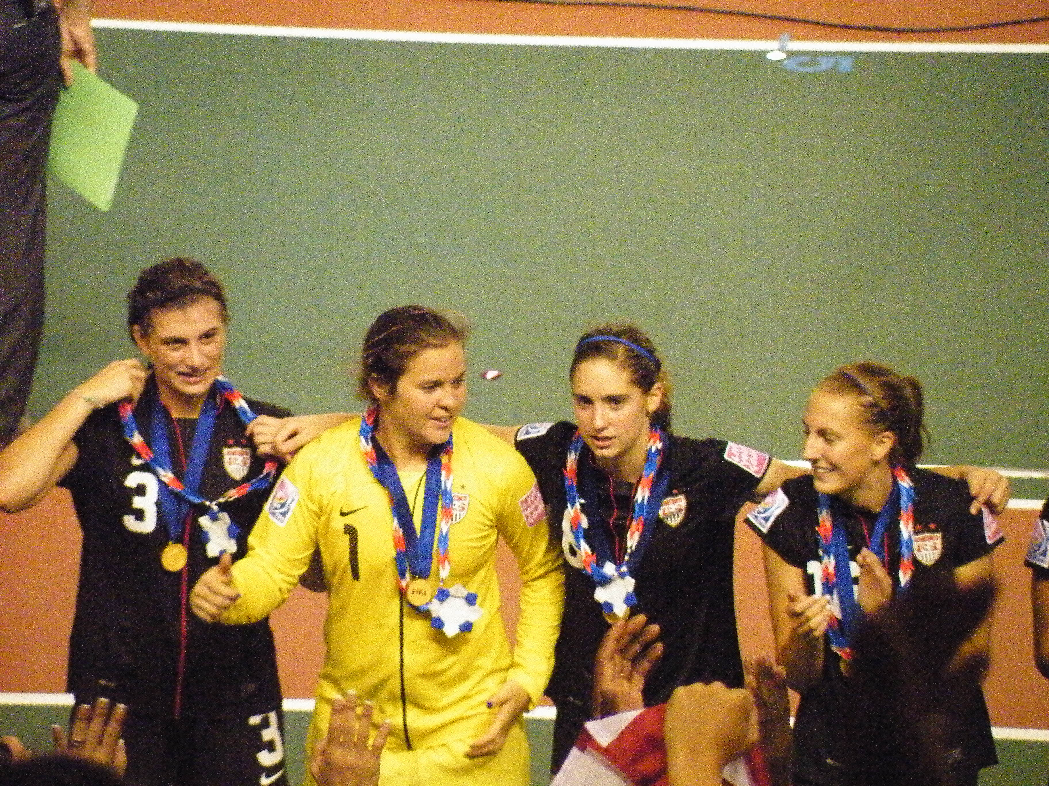 FIFA U-20 Women's World Cup 2012 Awards Ceremony; Players from left to right: 3—Cari Roccaro, 1—Bryane Heaberlin (GK), 6—Morgan Brian, 16—Sarah Killion